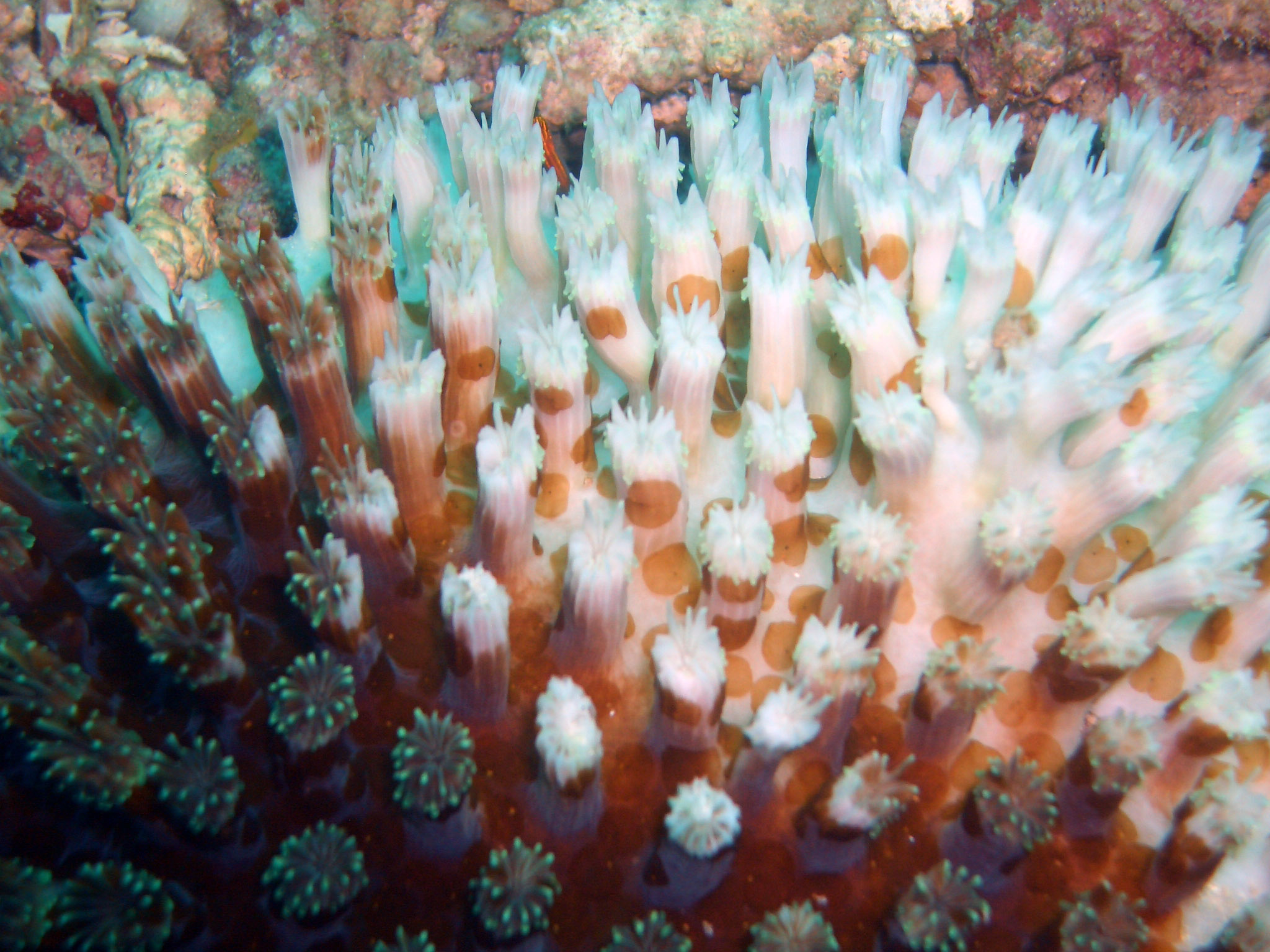 Galaxea sp. When water becomes too warm, corals become stressed and expel their zooxanthelee in a process known as coral bleaching. If the sea temperature does not drop quickly, the expulsion becomes permanent and the coral dies.